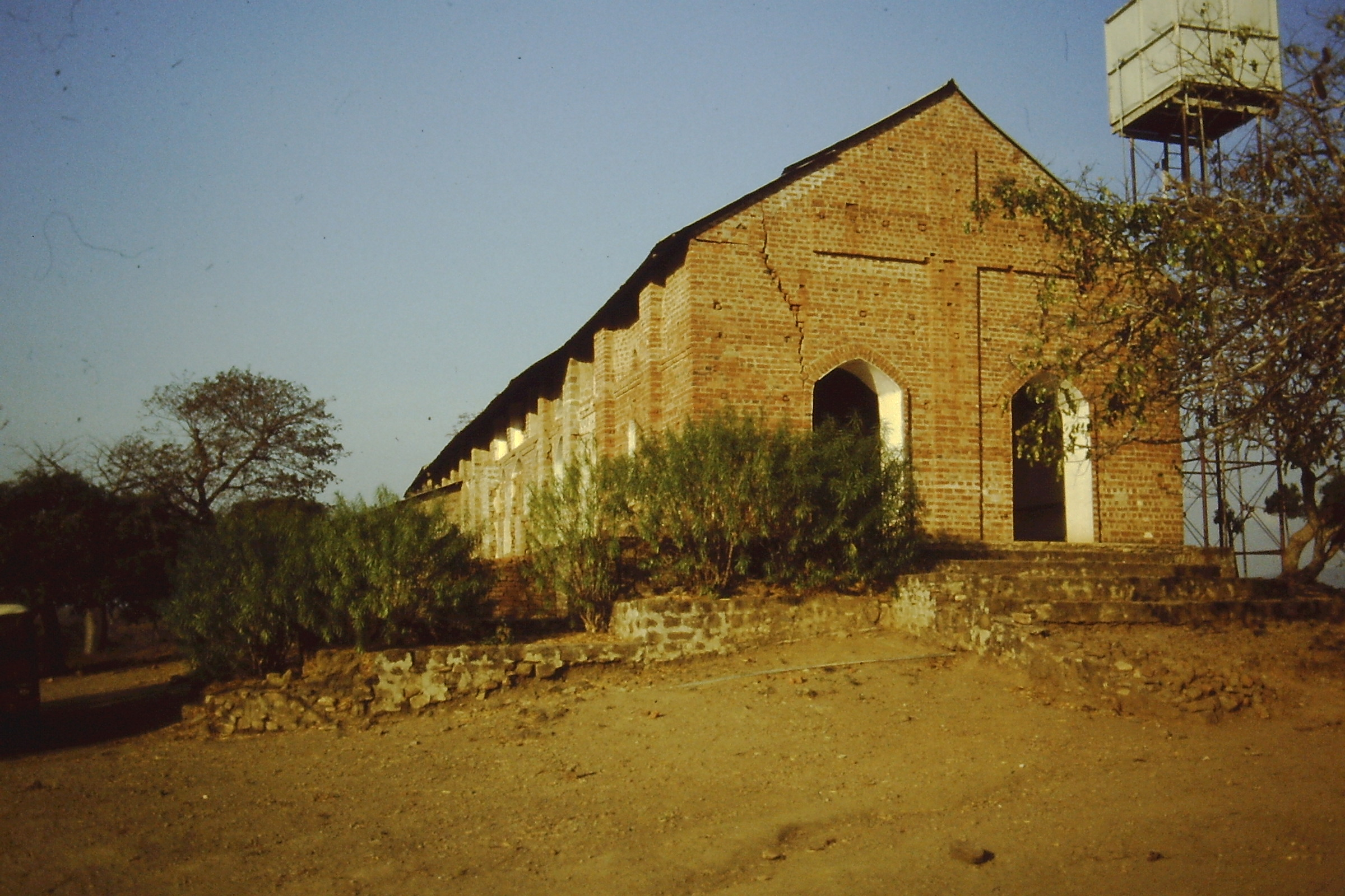 Messoumba Anglican mission, close to Chiuanga, a few km North of Metangula, on the Mozambican shore of Lake Malawi (1988)